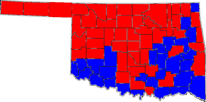 Oklahoma Senate special election results by county.